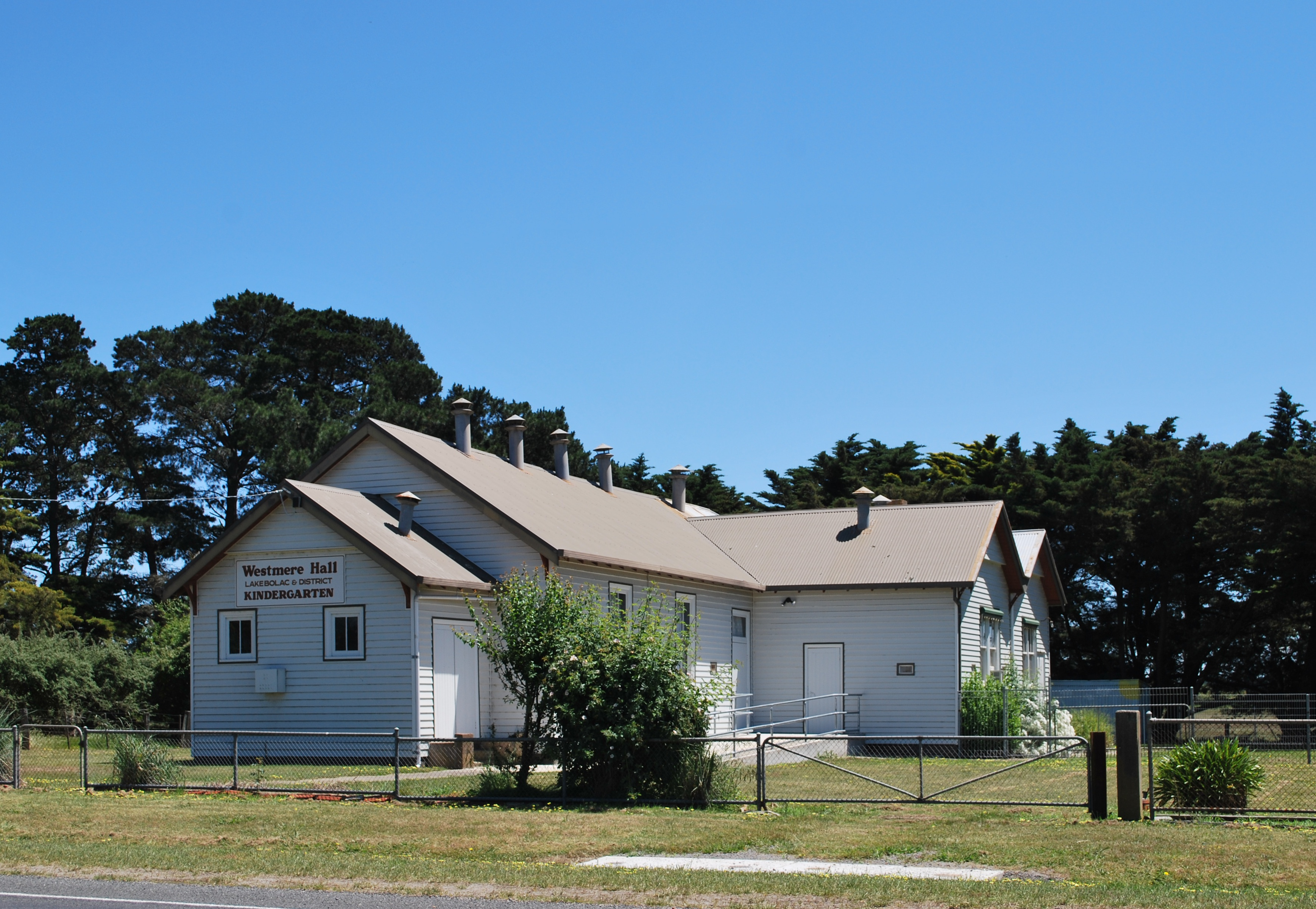 Public hall at Westmere, Victoria